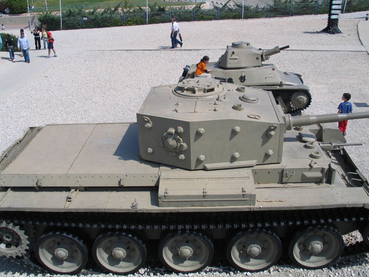 Cruiser Tank Mk VIII Cromwell in Yad la-Shiryon Museum, Israel.